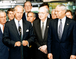 Secretary Colin Powell, Senator Joe Biden (left), Senator Jesse Helms (center), and other members of the Senate Foreign Relations Committee met to discuss the Global Coalition To Fight Terrorism, Washington, DC (State Department Photo by Mike Gross)